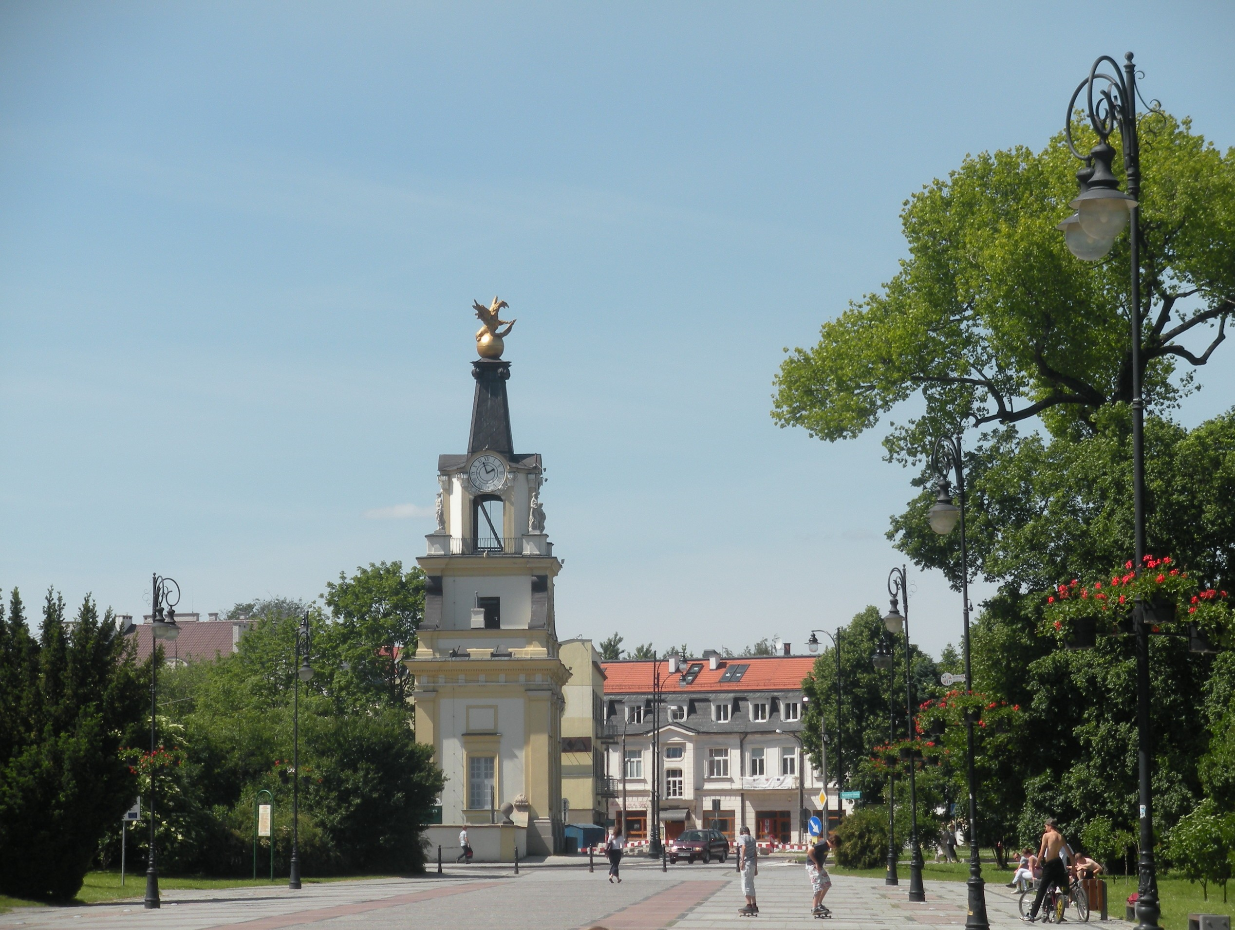 Białystok. Park "Stary" and the gate with the clock tower at the Palace Branicki